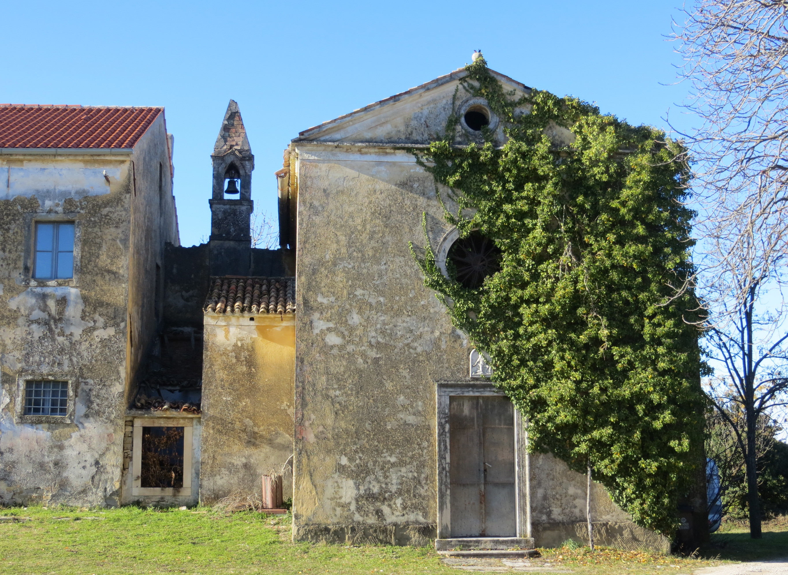 Saint Onuphrius's Church in the hamlet of Krog in Sečovlje, Municipality of Piran, Slovenia